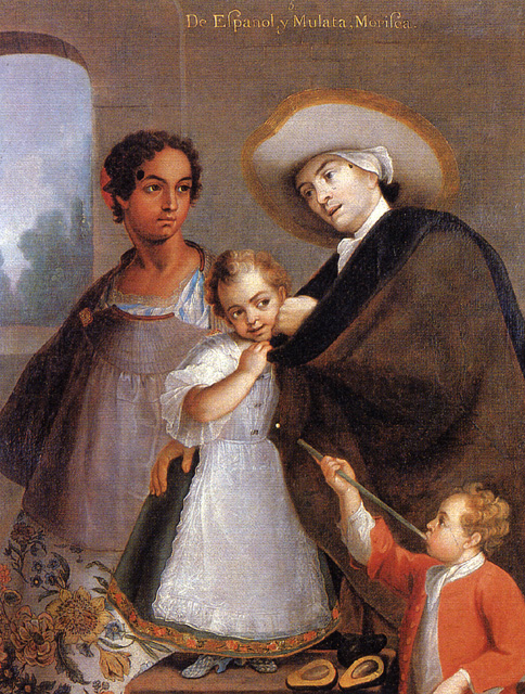 Pintura de Castas, 5. from Spaniard and Mulatto, Morisca